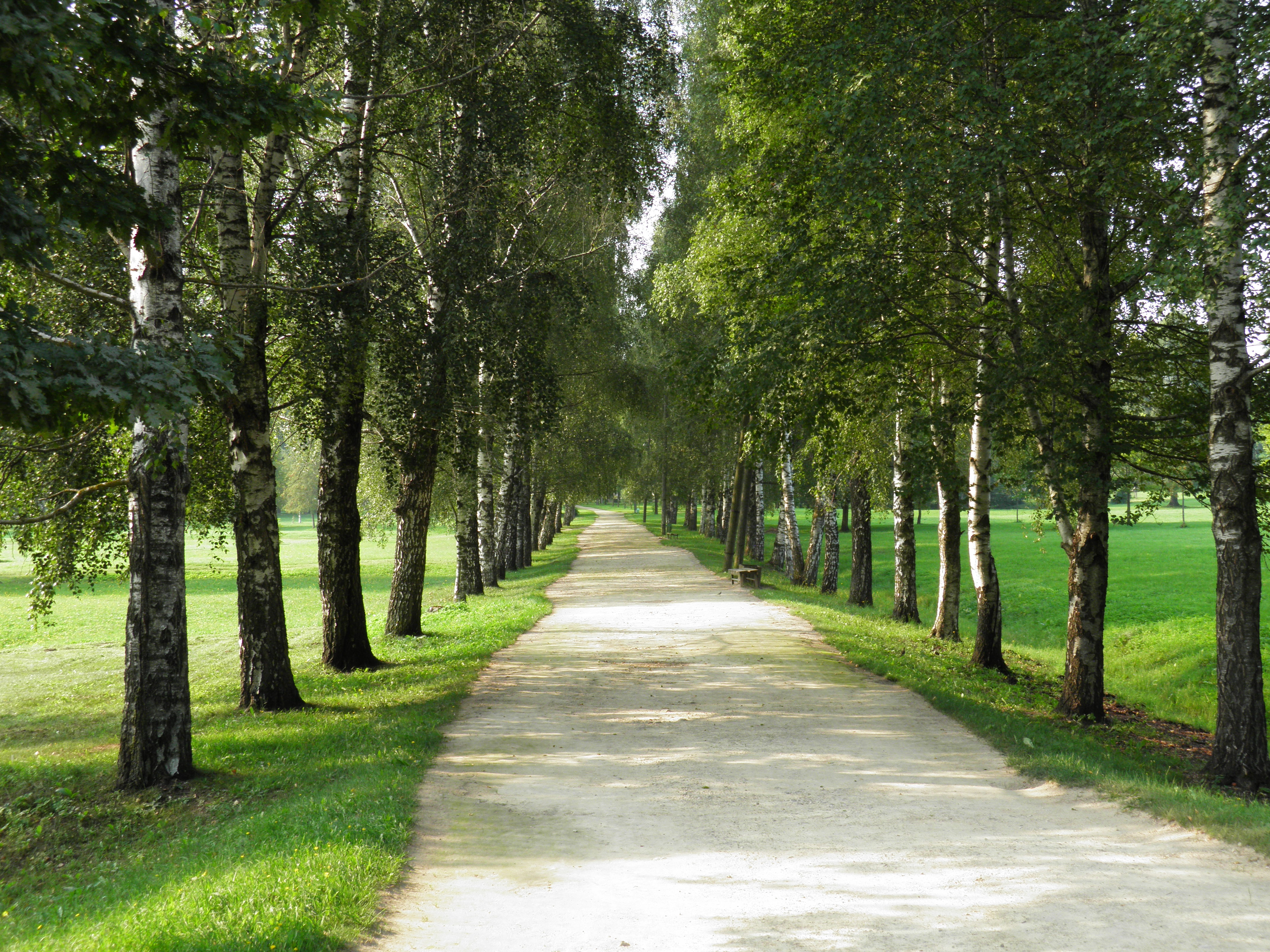 Birch (Betula sp.) avenue in a park, Nereta, Latvia